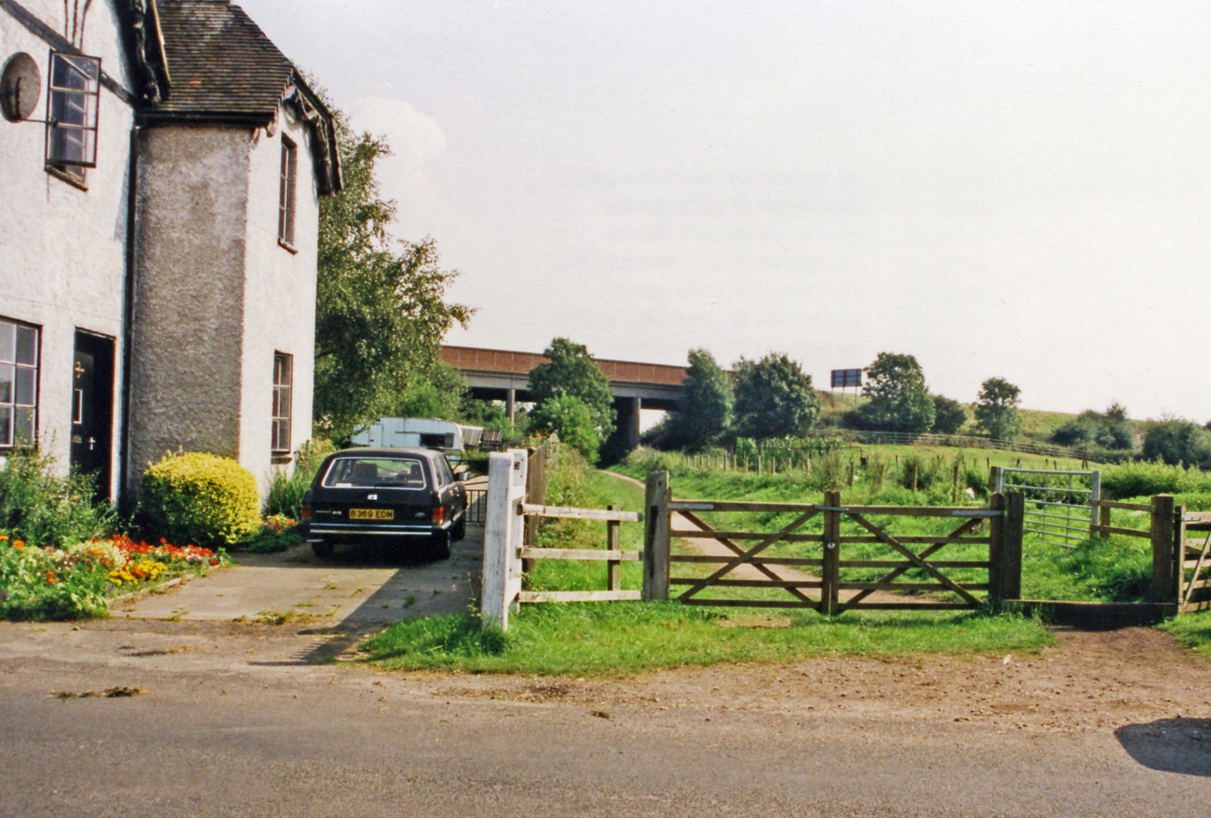 Site of Hassall Green station. View SE, towards Harecastle: ex-North Stafford Harecastle - Sandbach branch. The station had been closed to passengers 28/7/30 (to goods 1/11/47), but the line remained in use for freight until 4/1/71. Ahead is the M6 Motorway.